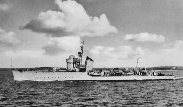 The Swedish destroyer HMS Romulus, formerly Spica of the Italian navy.